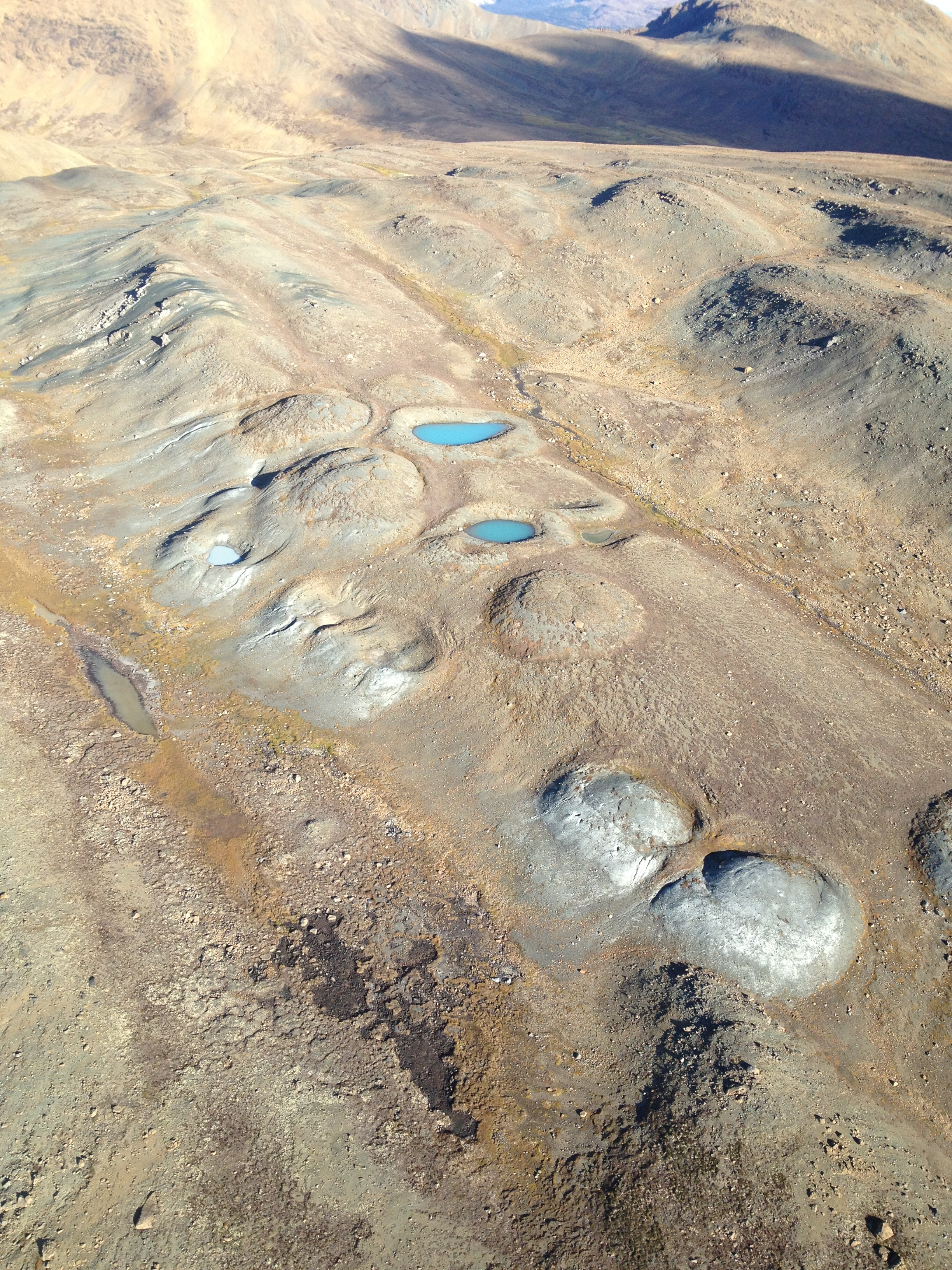 A series of mud volcanos on the Nahlin Plateau, British Columbia.